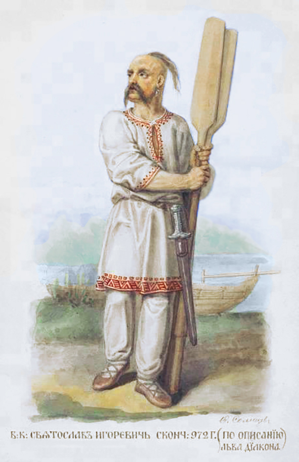 Slav warrior, russian knyaz Svyatoslav.